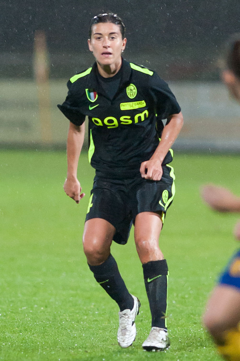 UEFA Women's Champions League FSK St. Pölten-Spratzern vs ASF CF Verona, St. Pölten, 2015-10-07: Italian footballer Marta Carissimi.